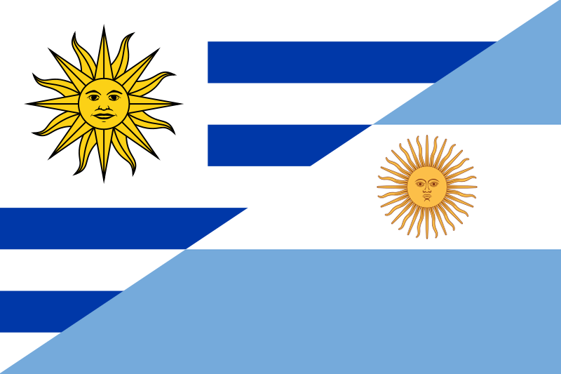 Flag of Uruguay and Argentina